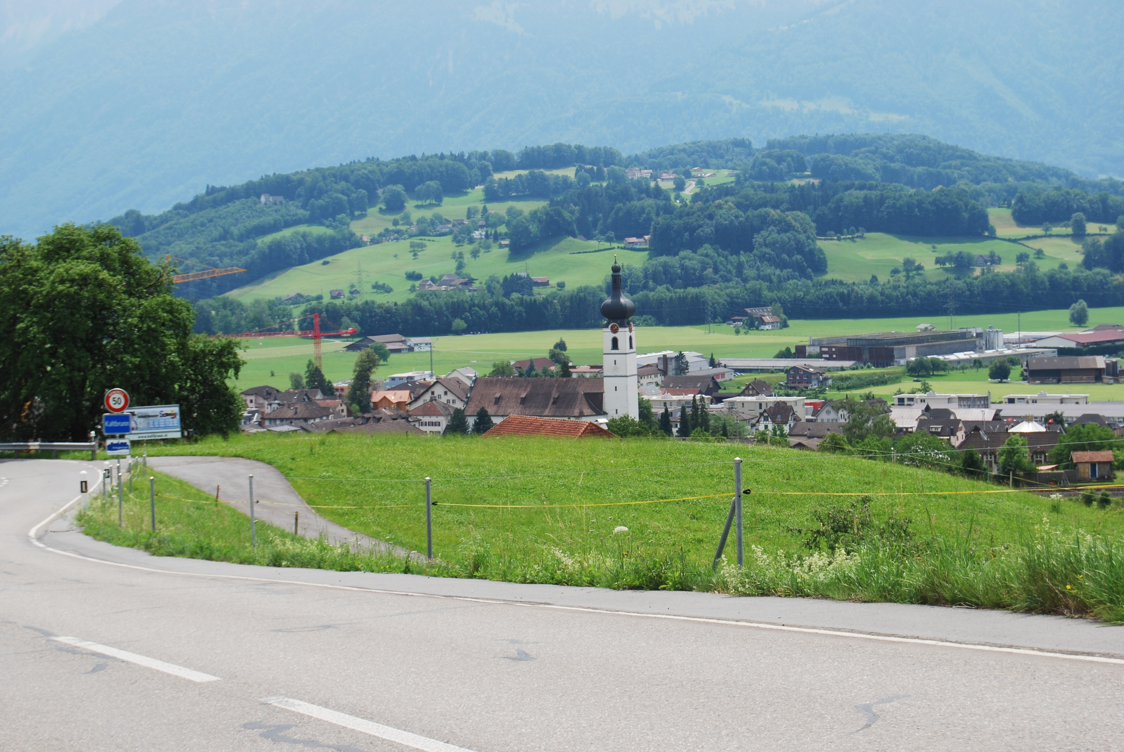 Kaltbrunn, canton of St. Gallen, SwitzerlandEsperanto: Kaltbrunn, Kantono Sankt-Galo, Svislando